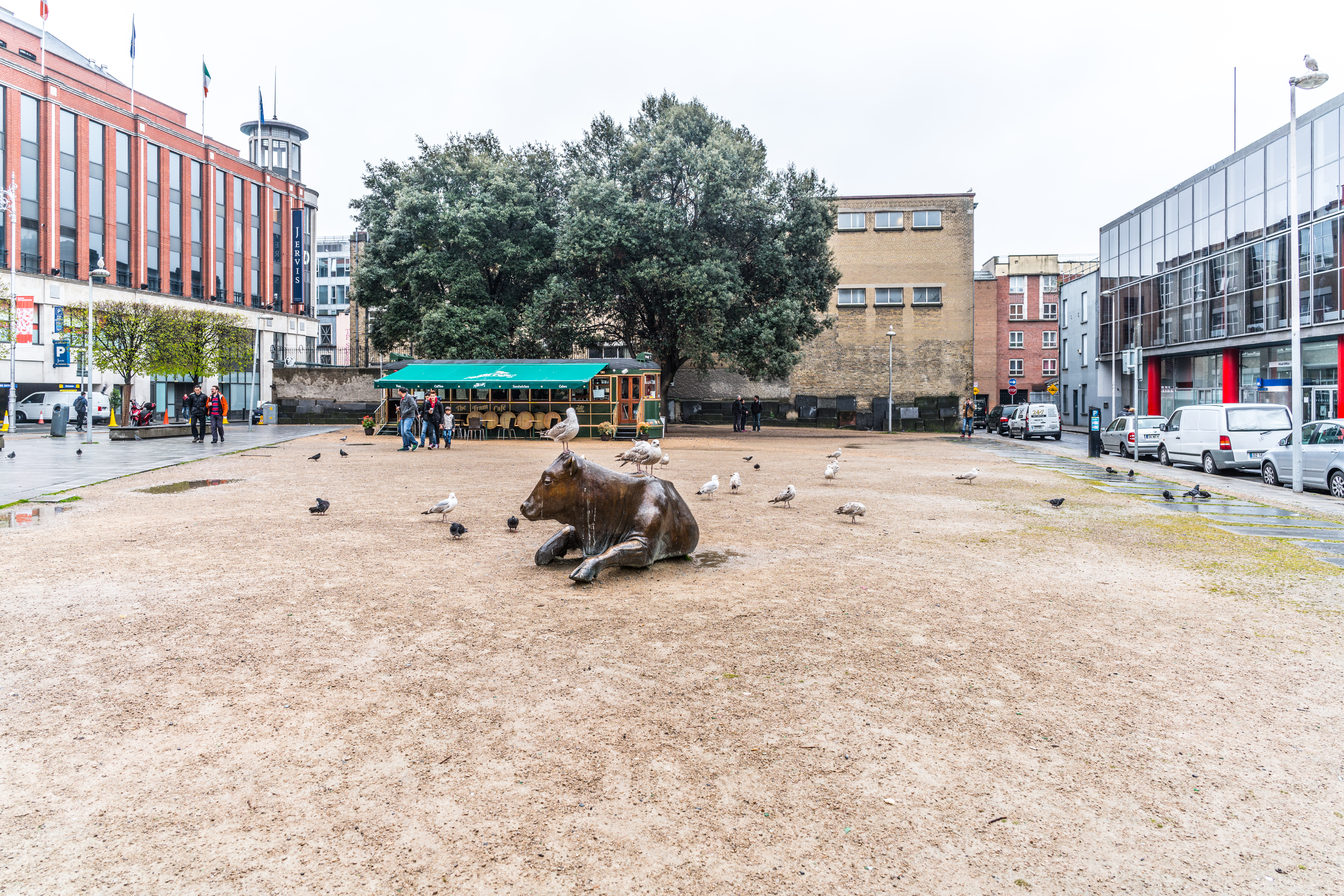 This statue is located at Wolfe Tone Square, Dublin, Ireland, beside the Jervis Shopping Centre. The gulls and pigeons are waiting to be fed.